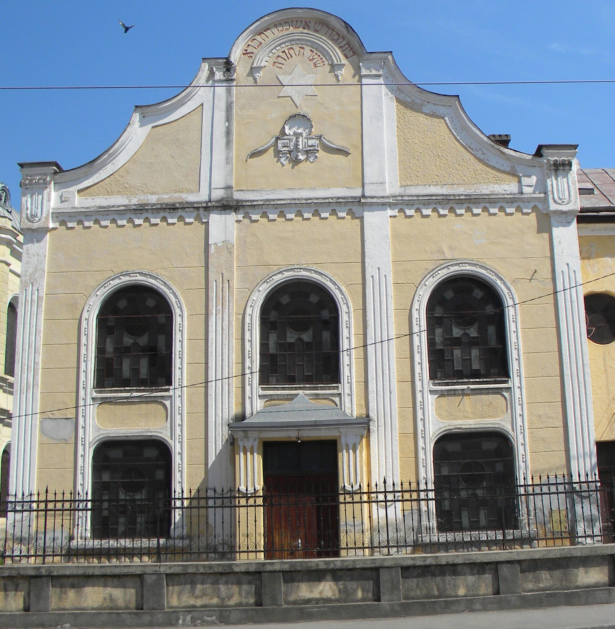 Talmud Tora Sinagogue, Várdomb (Decebal) street, Satu Mare/Szatmárnémeti/Sathmar/סאטמאר